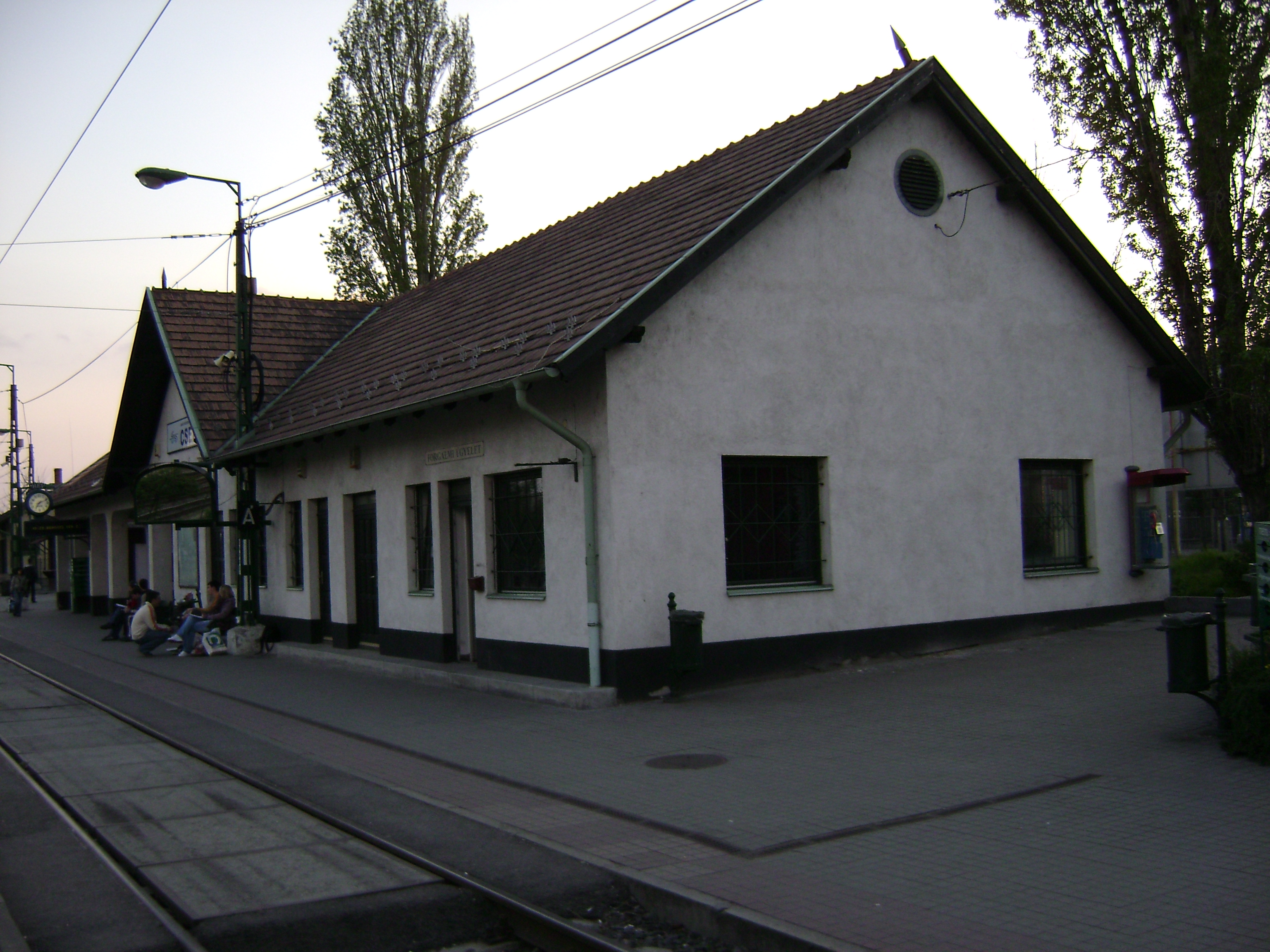 The HÉV railway station at Csepel in Budapest County, Hungary